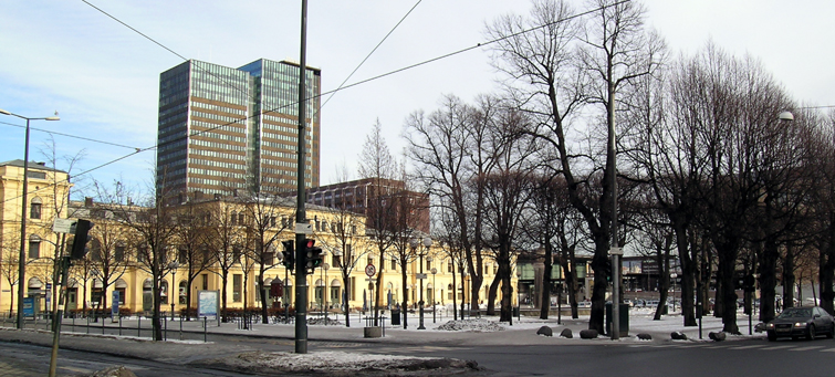 Christian Frederiks plass («Plata»), Oslo.